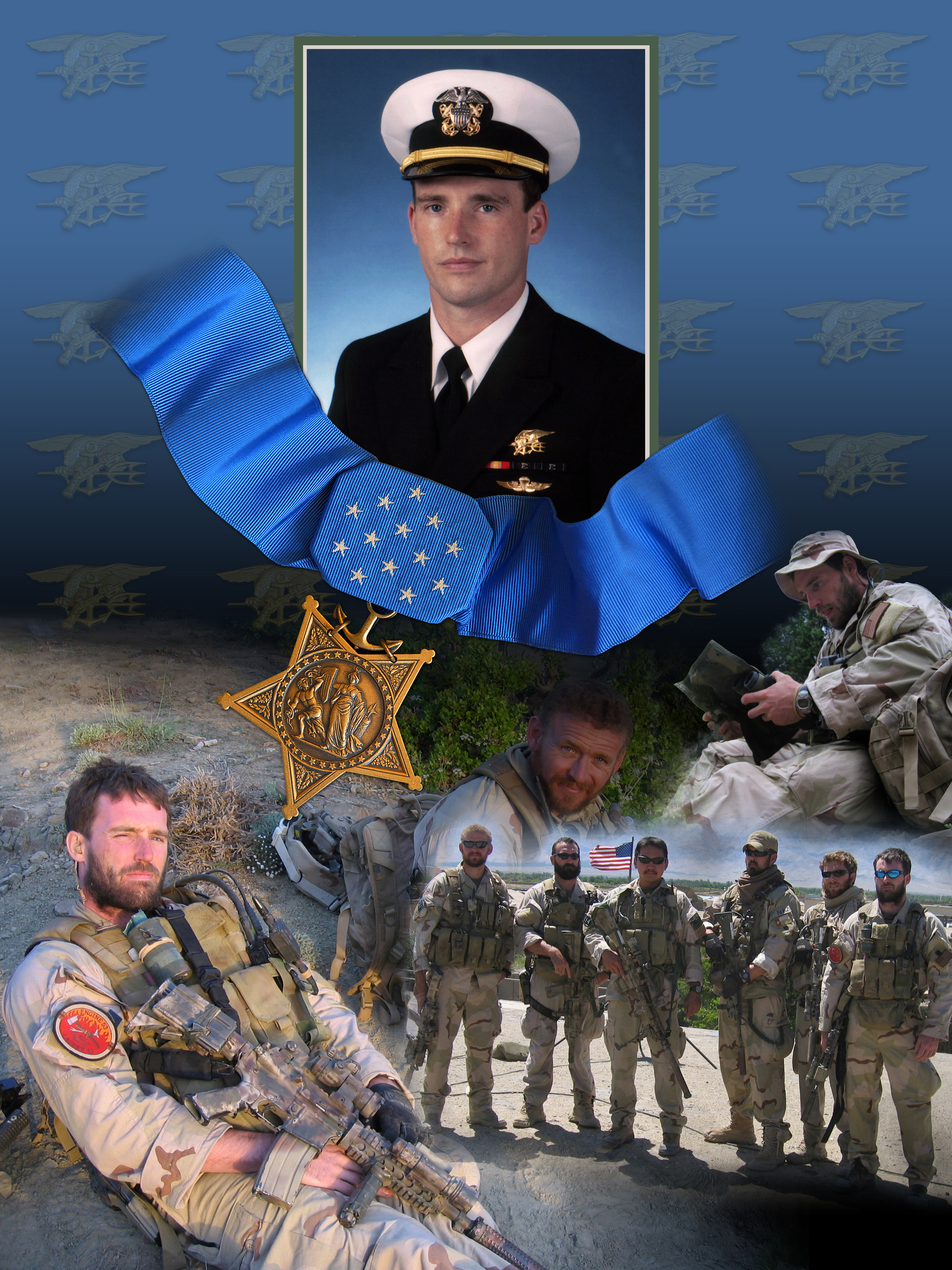 Photo Illustration commemorating the Medal of Honor presented posthumously to Lt. Michael P. Murphy (Sea, Air, Land).